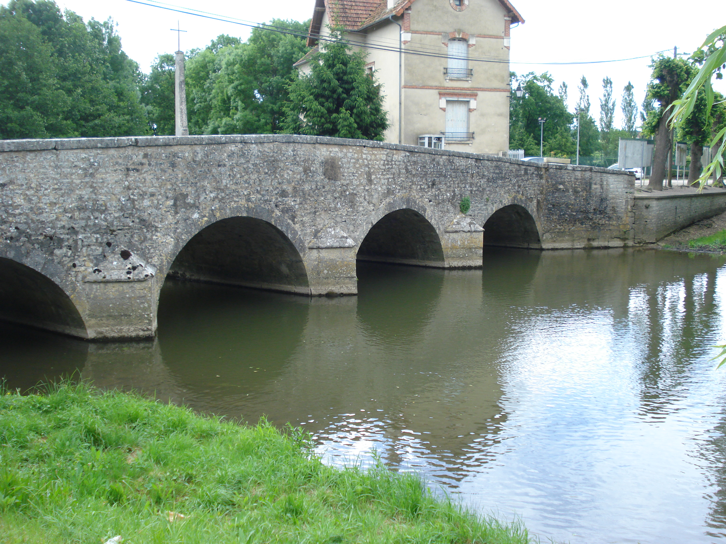 Pont sur le Serein à Annay sur Serein (Yonne, Fr).